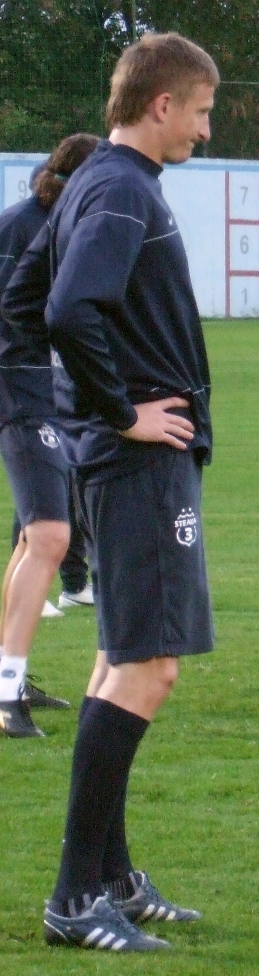 Dorin Goian